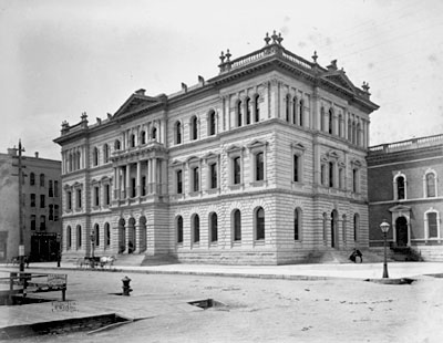 Cook County Criminal Courthouse built 1874, torn down and replaced 1892